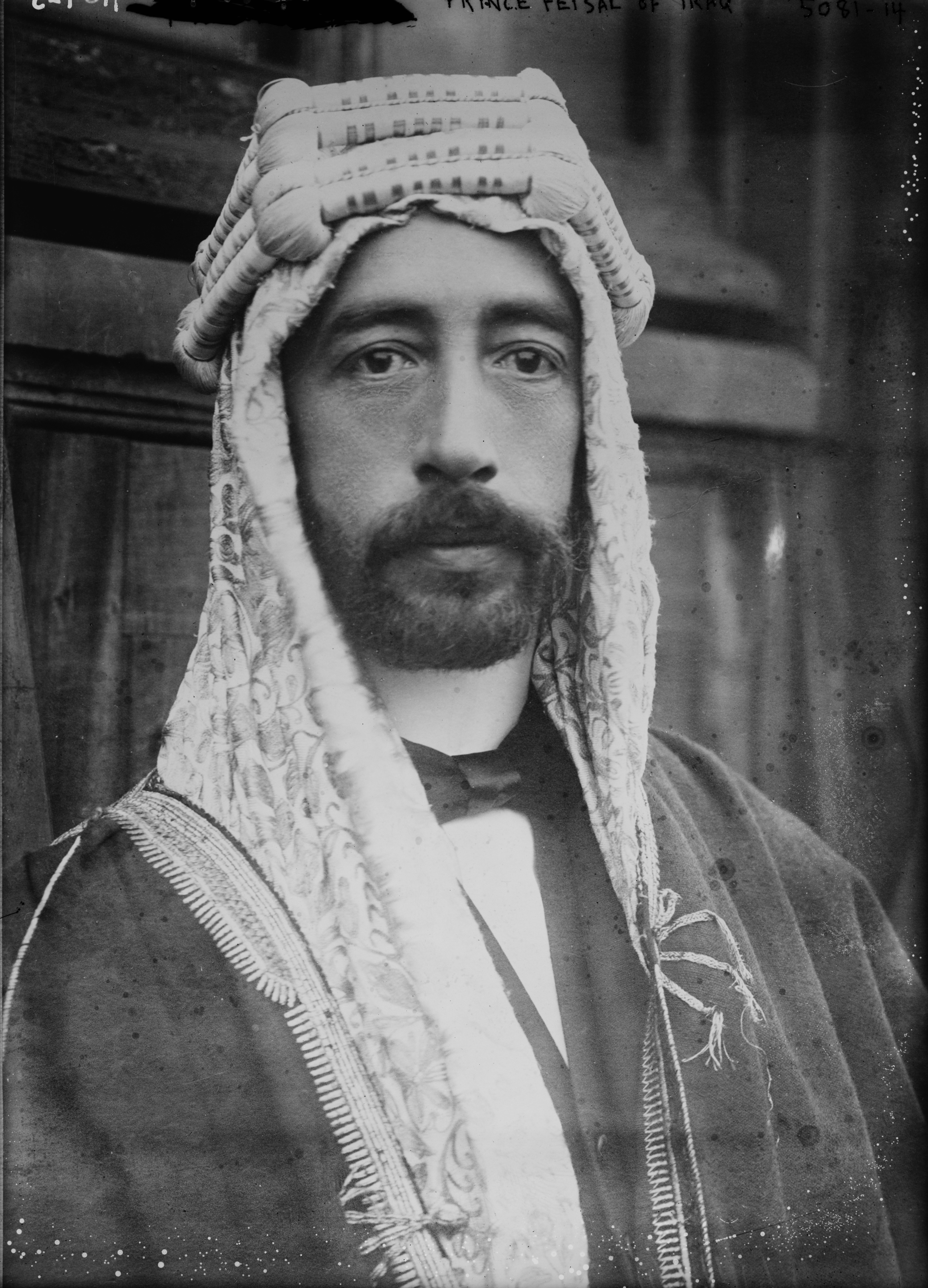 Feisal I of Iraq